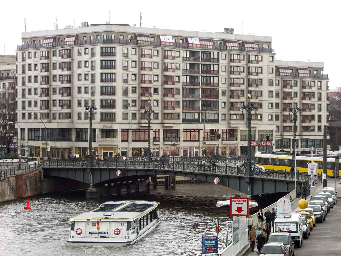 Plattenbau at Friedrichstraße in Berlin-Mitte with Weidendammer Brücke in foreground - view from train station Friedrichstraße